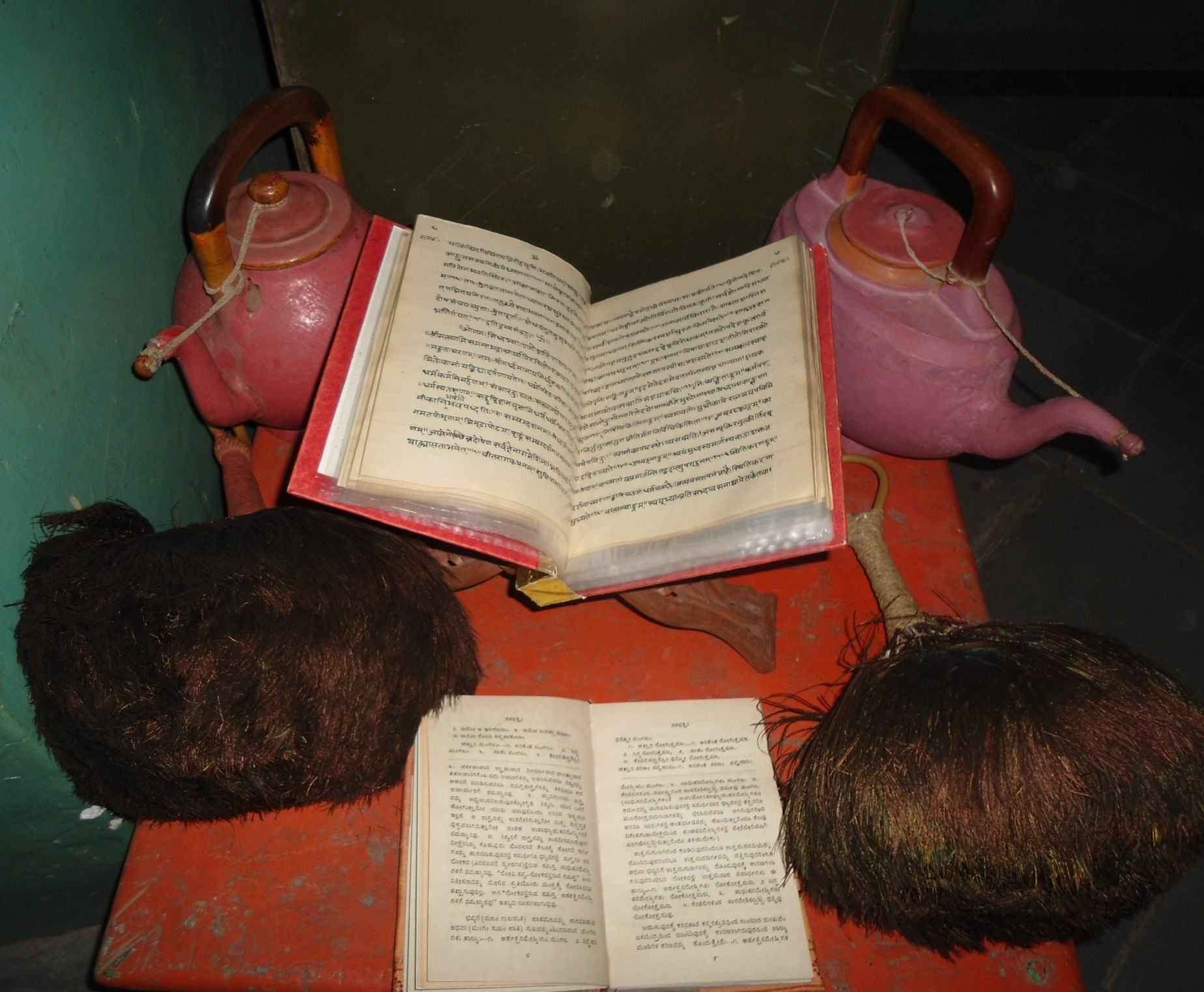 The three ahinsa instruments of a Digambara monk